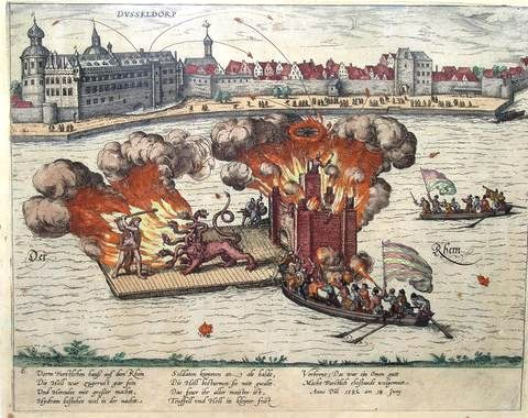 Kupferstich von Franz Hogenburg in D.Graminäus "Beschreibung derer Fuerstlich Gueligscher Hochzeit ...", Köln 1587, Feuerwerk auf dem Rheinstrome. Taten des Herkules